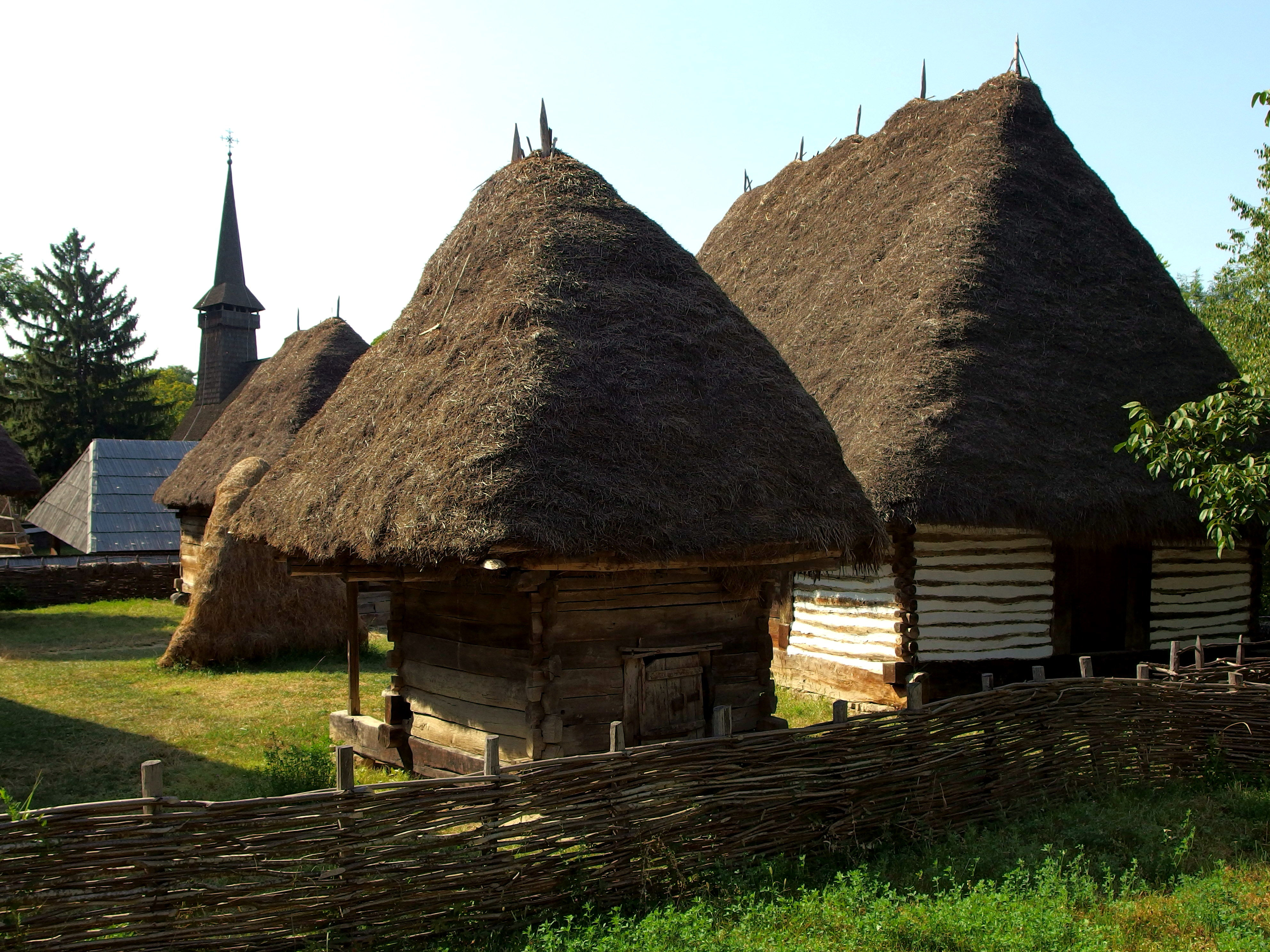 2014-08-20 in Bucharest.